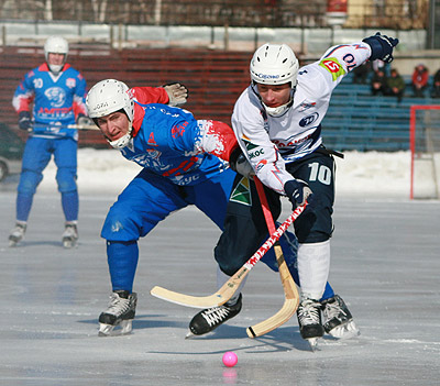 Bandy